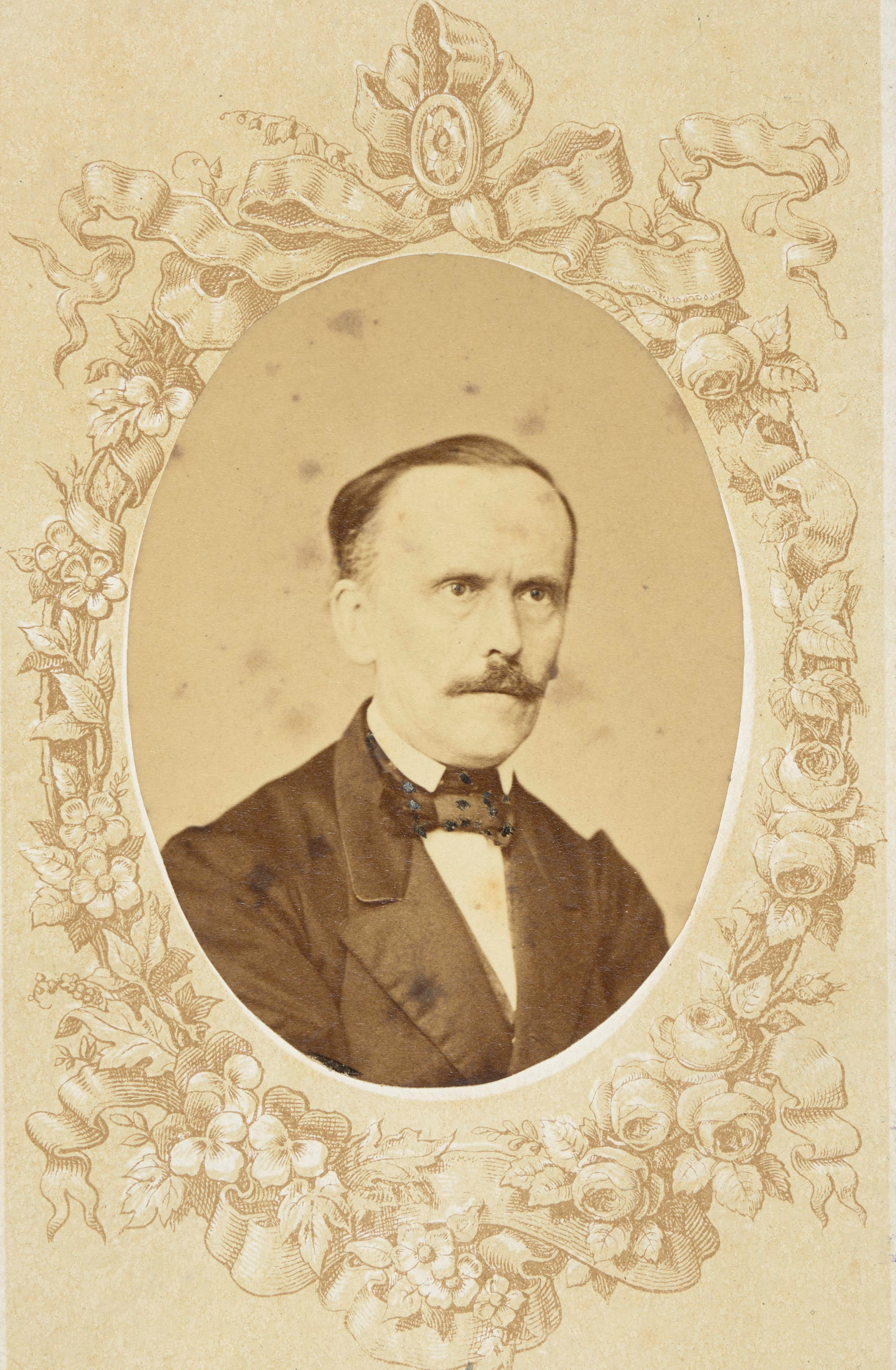 Ludwik Jenike, ok. 1865 r.